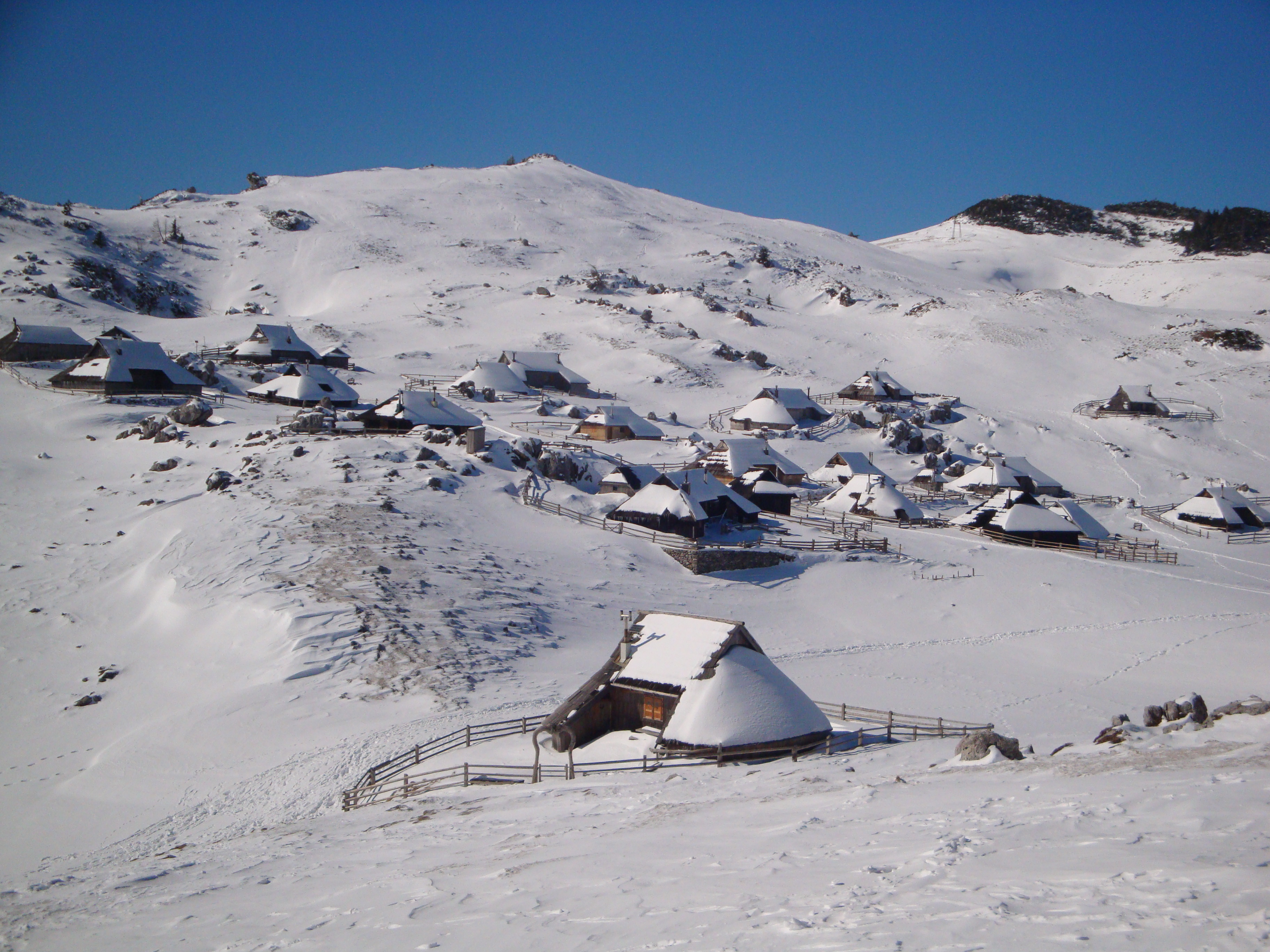 Velika planina, winter, Slovenia